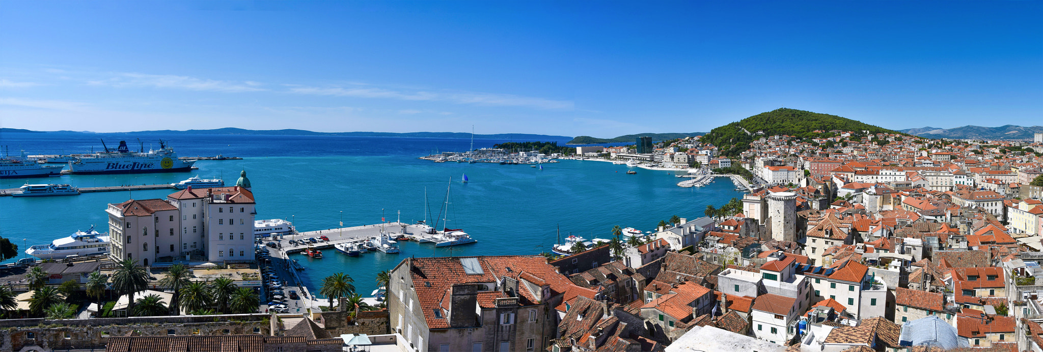 500px provided description: View at Split, Croatia from the Saint Domnius Bell Tower [#landscape ,#sea ,#croatia ,#marina ,#panorama ,#split ,#harbor ,#marine]